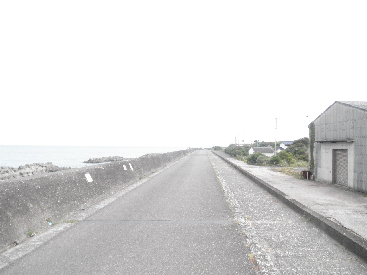 Wadajimatown 浜田 Komatsushima Tokushimapref Tokushimaprefect road 402 Anan TokushimaRotation road line